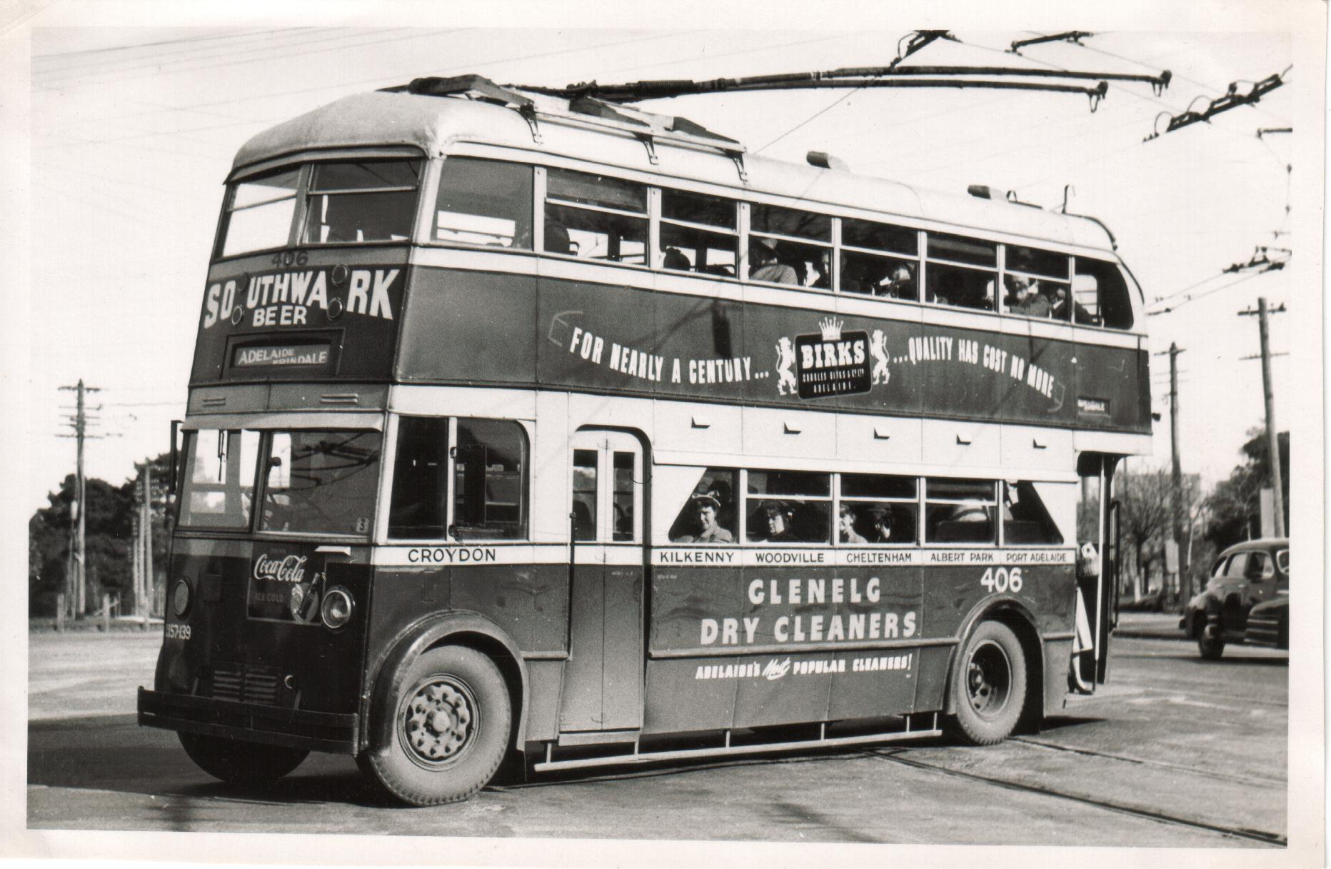 A front three-quarter view of trolleybus number 406 in Adelaide, South Australia. No. 406 was a Leyland trolleybus